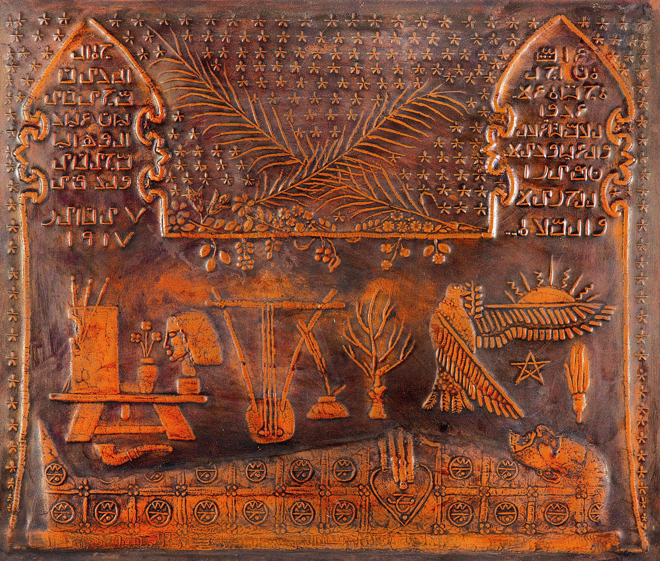 Copper Relief by Egyptian Sculptor Gamal Sagini called The Will